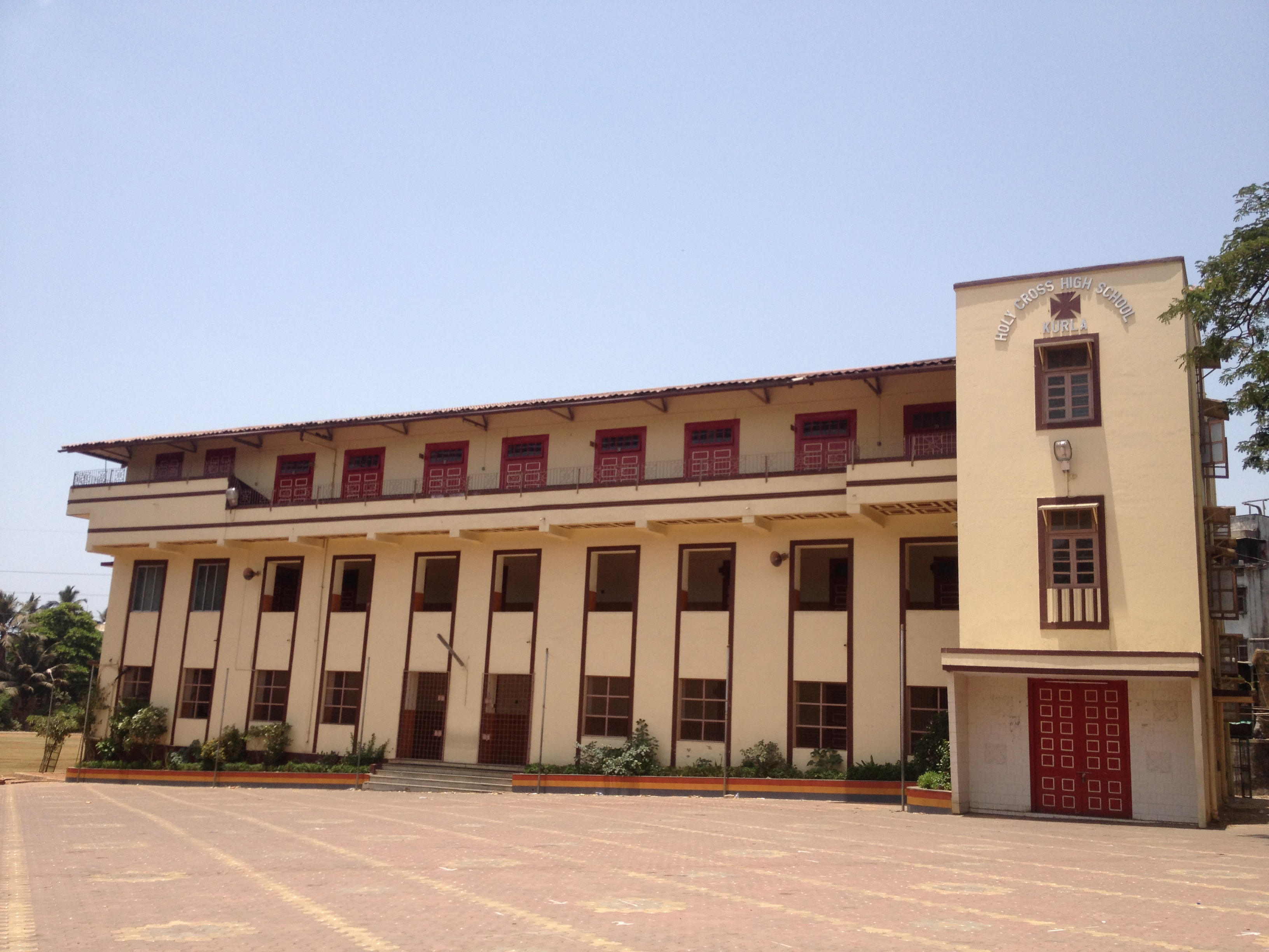 Shool building of Holy Cross School, kurla